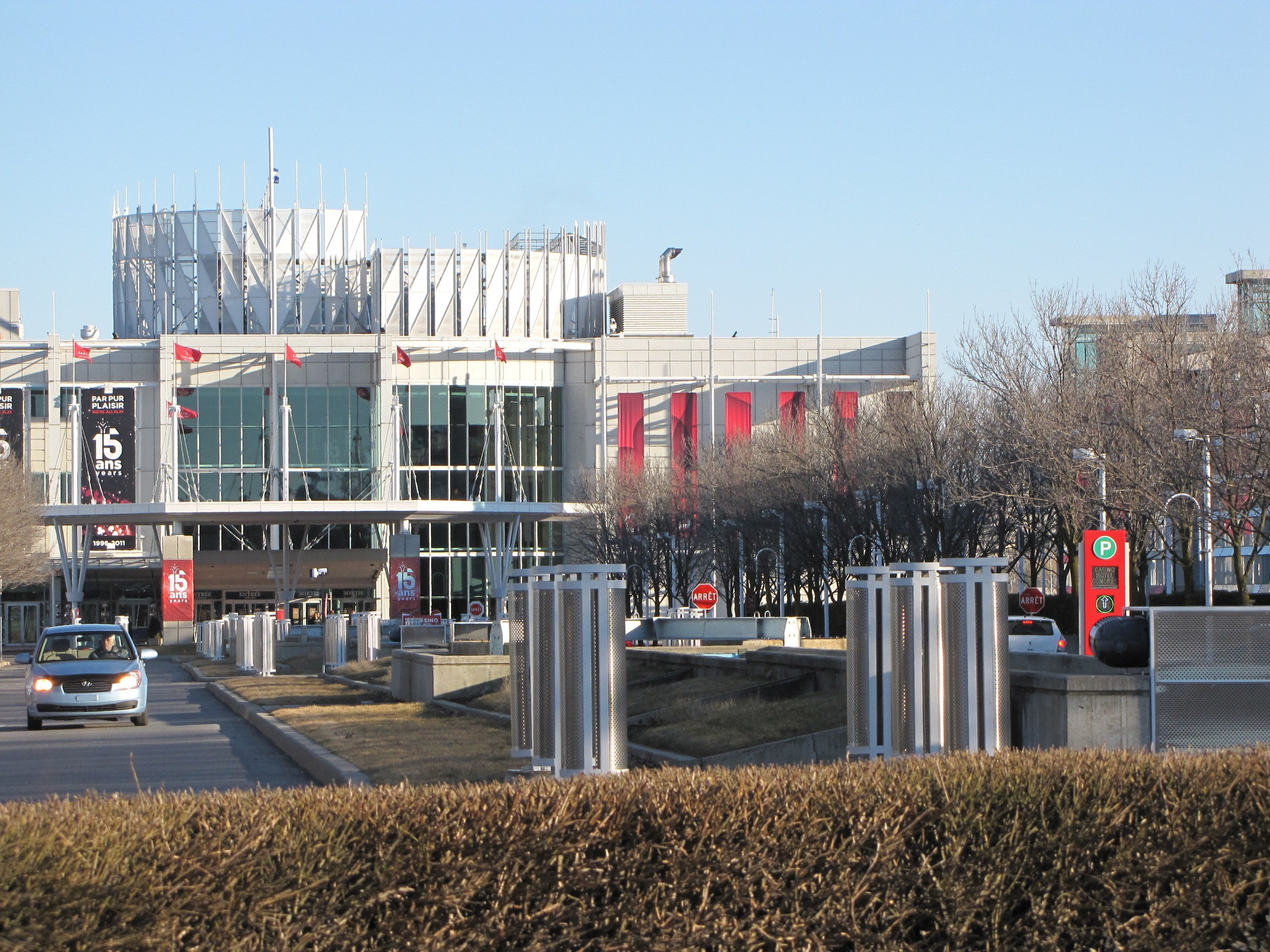 Lake Leamy Casino and Hilton Hotel complexe, Main entrance, de la Carrière Blvd., Hull area, Gatineau, Québec.